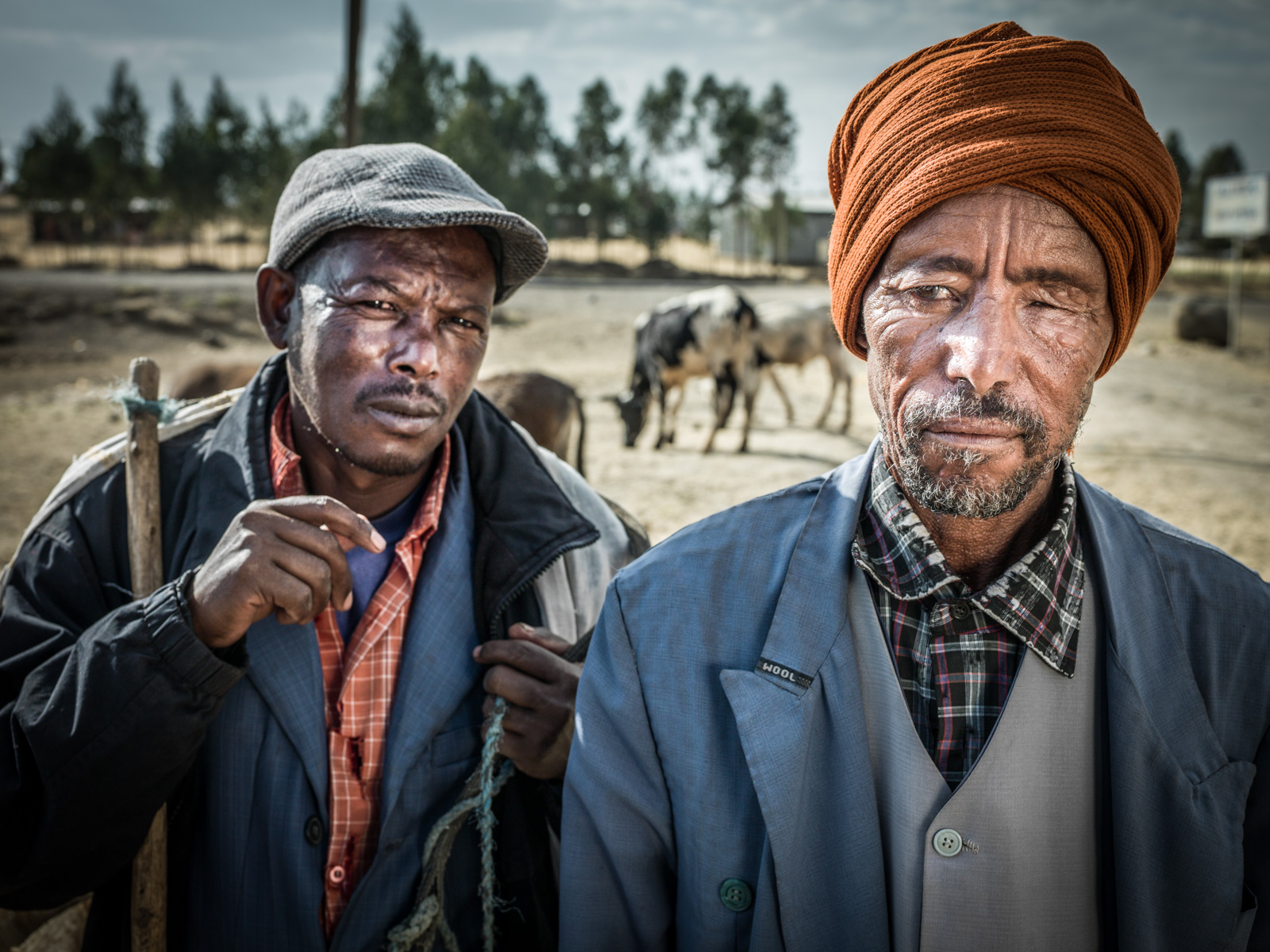 Cow farmers near Addis Ababa This is an image of "African people at work" from Ethiopia